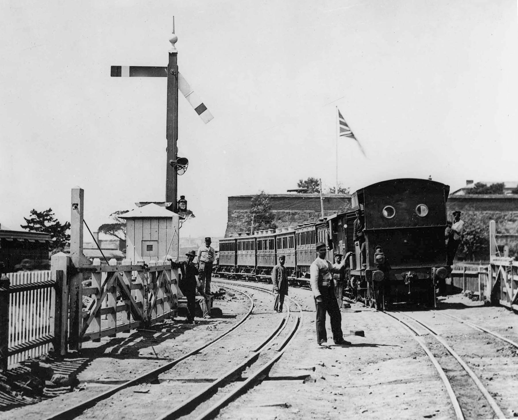 Standard gauge suburban train entering Cape Town station behind a 2-4-0T locomotive on dual gauge track (4 ft 8½ in broad gauge and 3 ft 6 in Cape gauge) on the old Strand street crossing, with the Castle of Good Hope in the background.